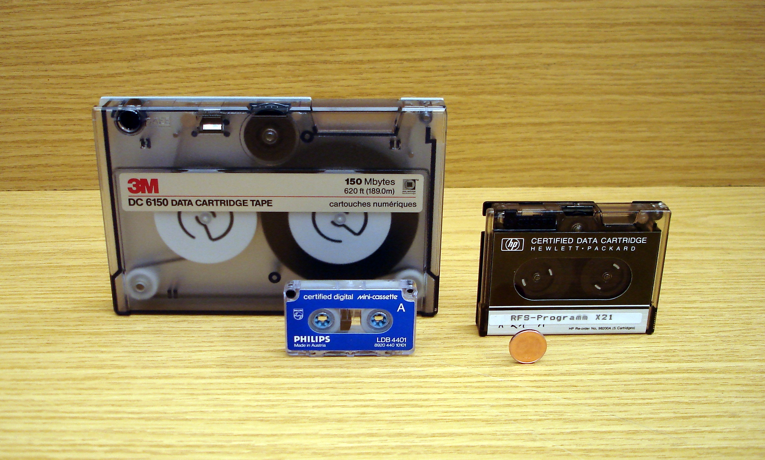 3 Magnetic tape cartridges: QIC DC (rear left), DDS (right), Philip LDB 4401 (front left). Digital LDB 4401 was a derivative of earlier (and incompatible) analogue Philips Mini-Cassette.